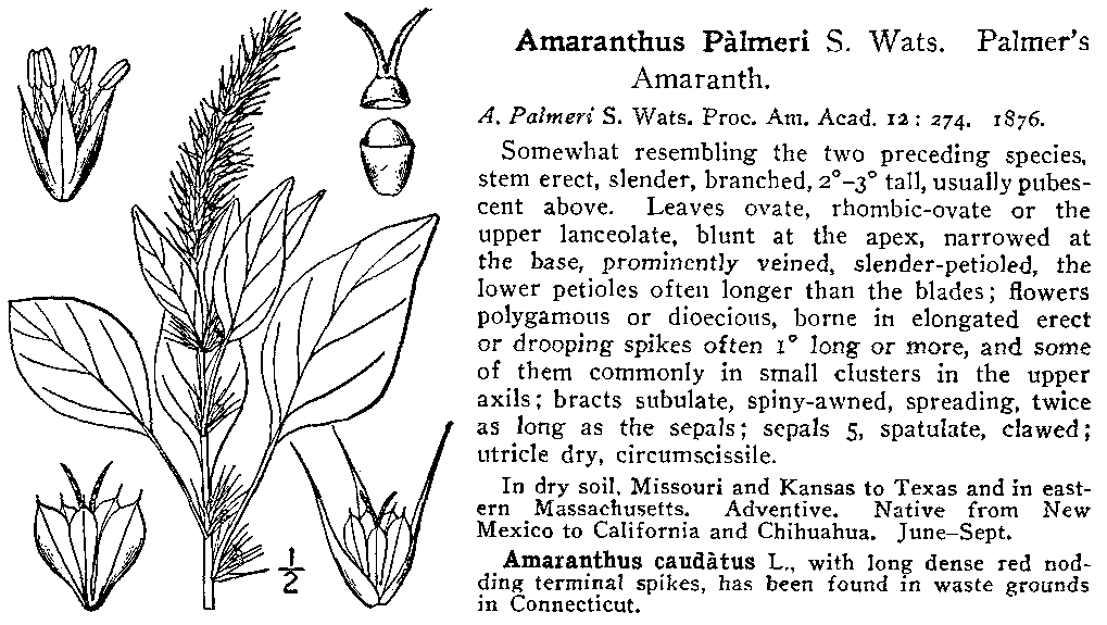 From An Illustrated Flora of the Northern United States, Canada and the British Possessions